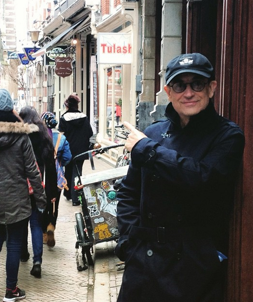 Matthew Causey in Amsterdam 2015. Photo by DG Fisher